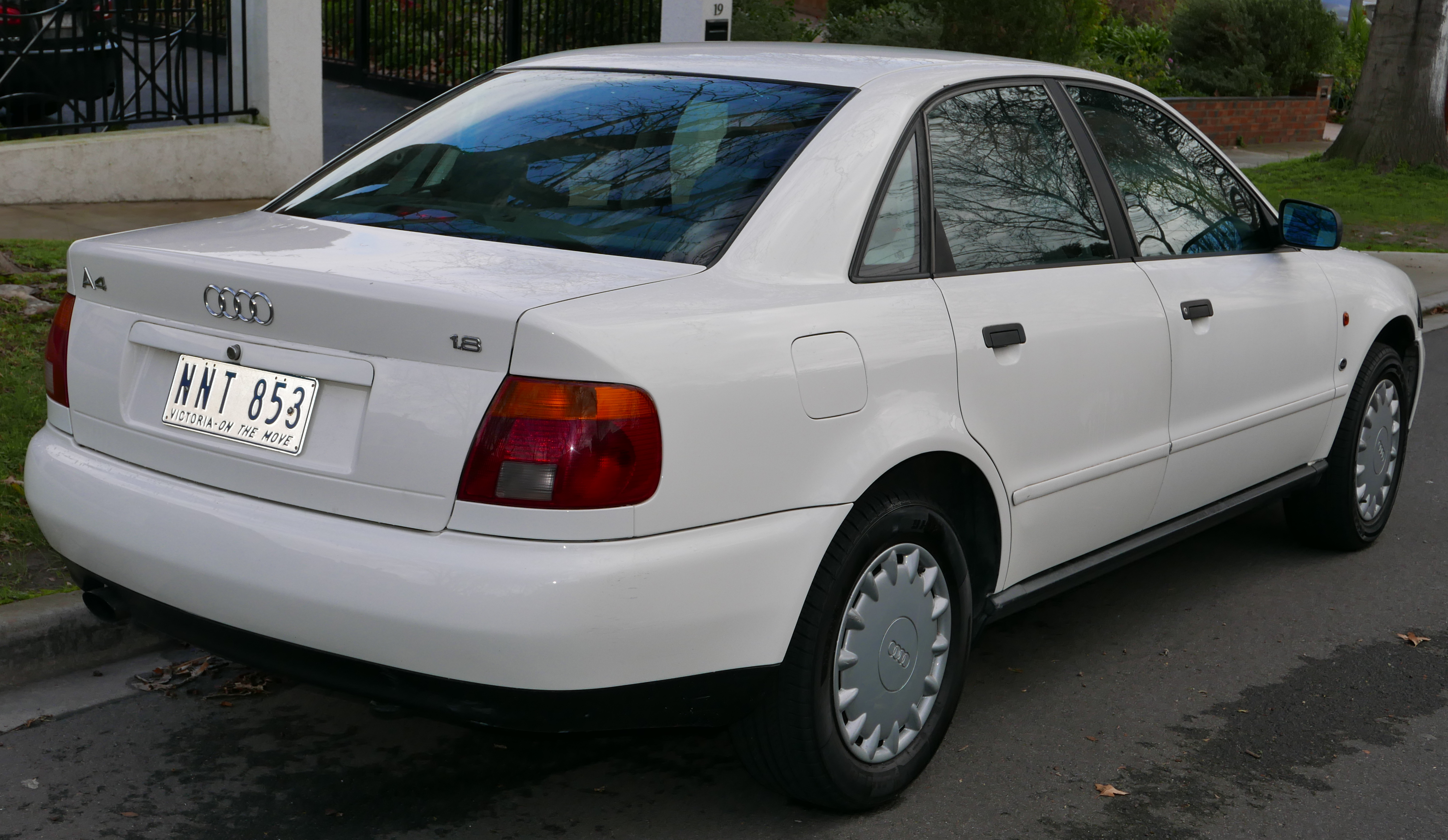 1995 Audi A4 (8D) 1.8 sedan. Photographed in Ivanhoe, Victoria, Australia. Vehicle registration enquiry results Jurisdiction Victoria Registration NNT853 Chassis code WAUZZZ8DZTA024047 Engine code ADR06507G Compliance date 1995-12 Year of manufacture 1995